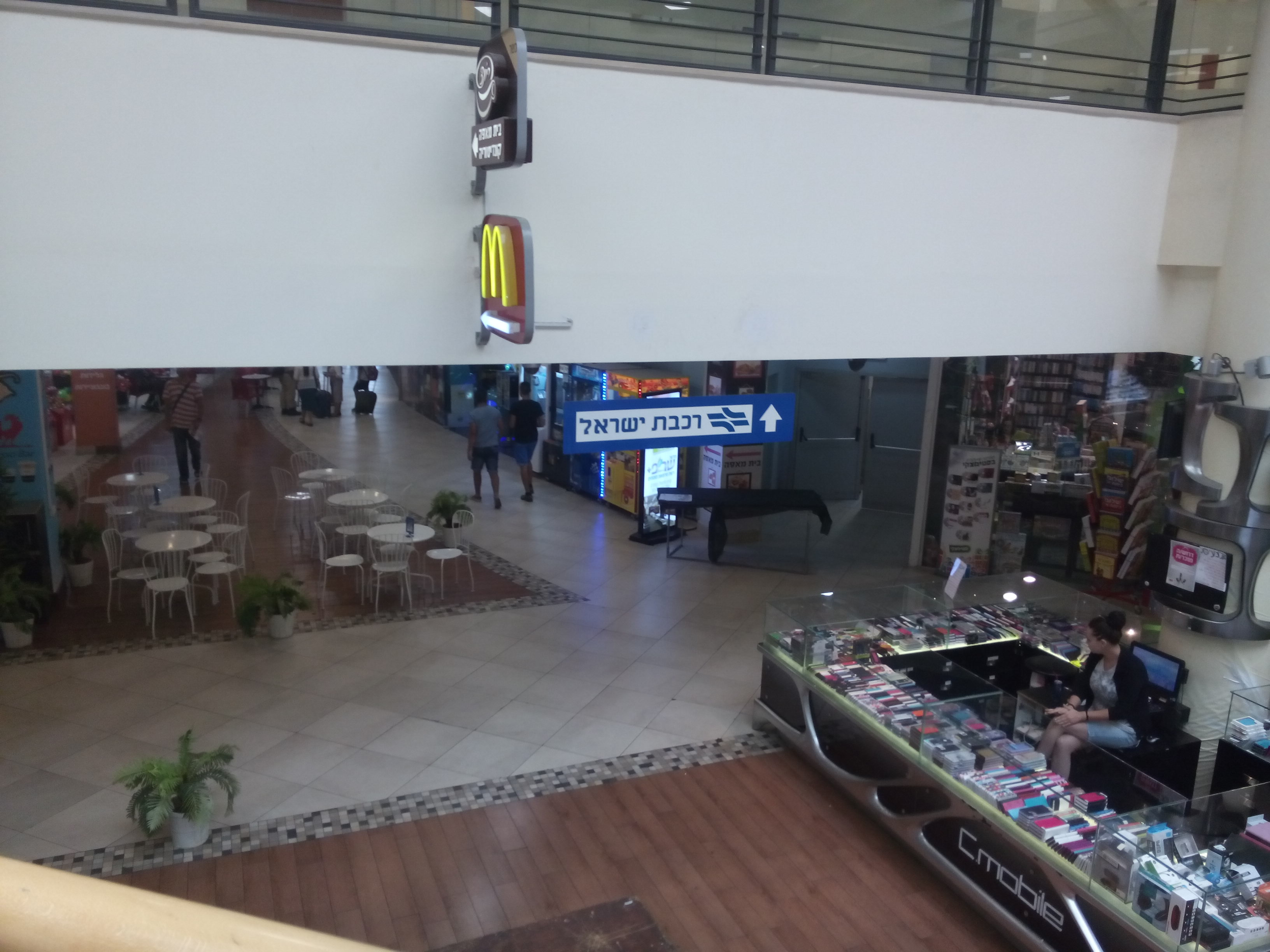 inside Cinemall (shopping mall) through which passengers access Lev HaMifratz train station